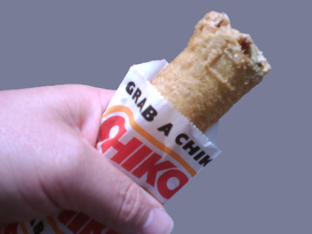 Low quality Hand holding a Chiko roll - taken with a phone